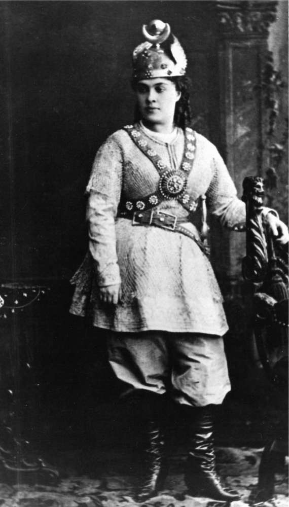 Portrait of Russian opera singer Alexandra Krutikova (1851-1919)